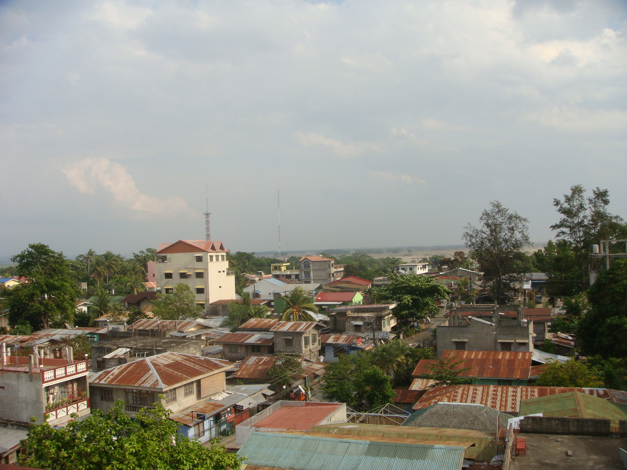 A birds eye view of the Philippine City